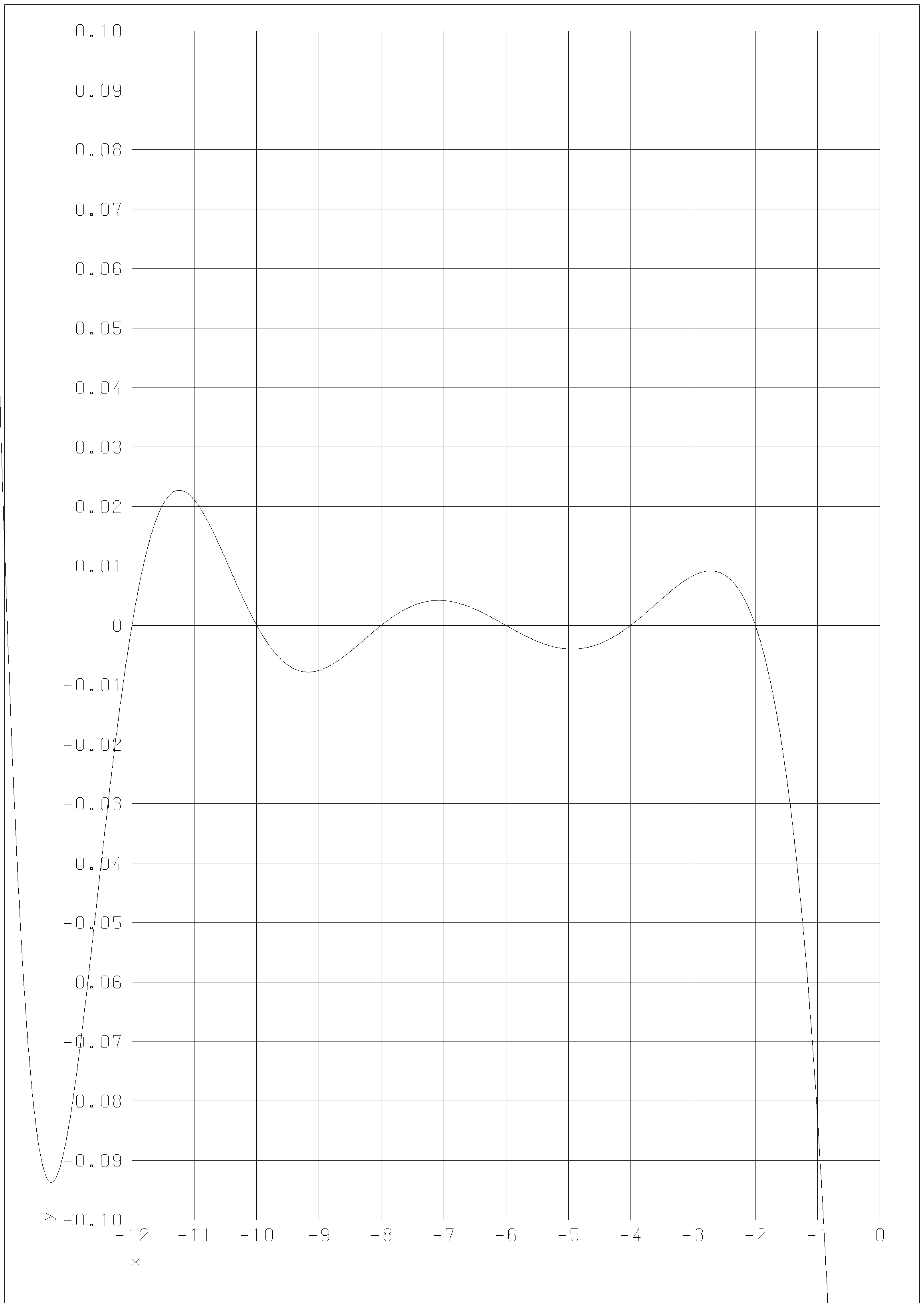 Graph of Riemann zeta function between -12 and -1. This graph shows the very small waves in the range of small negative numbers.